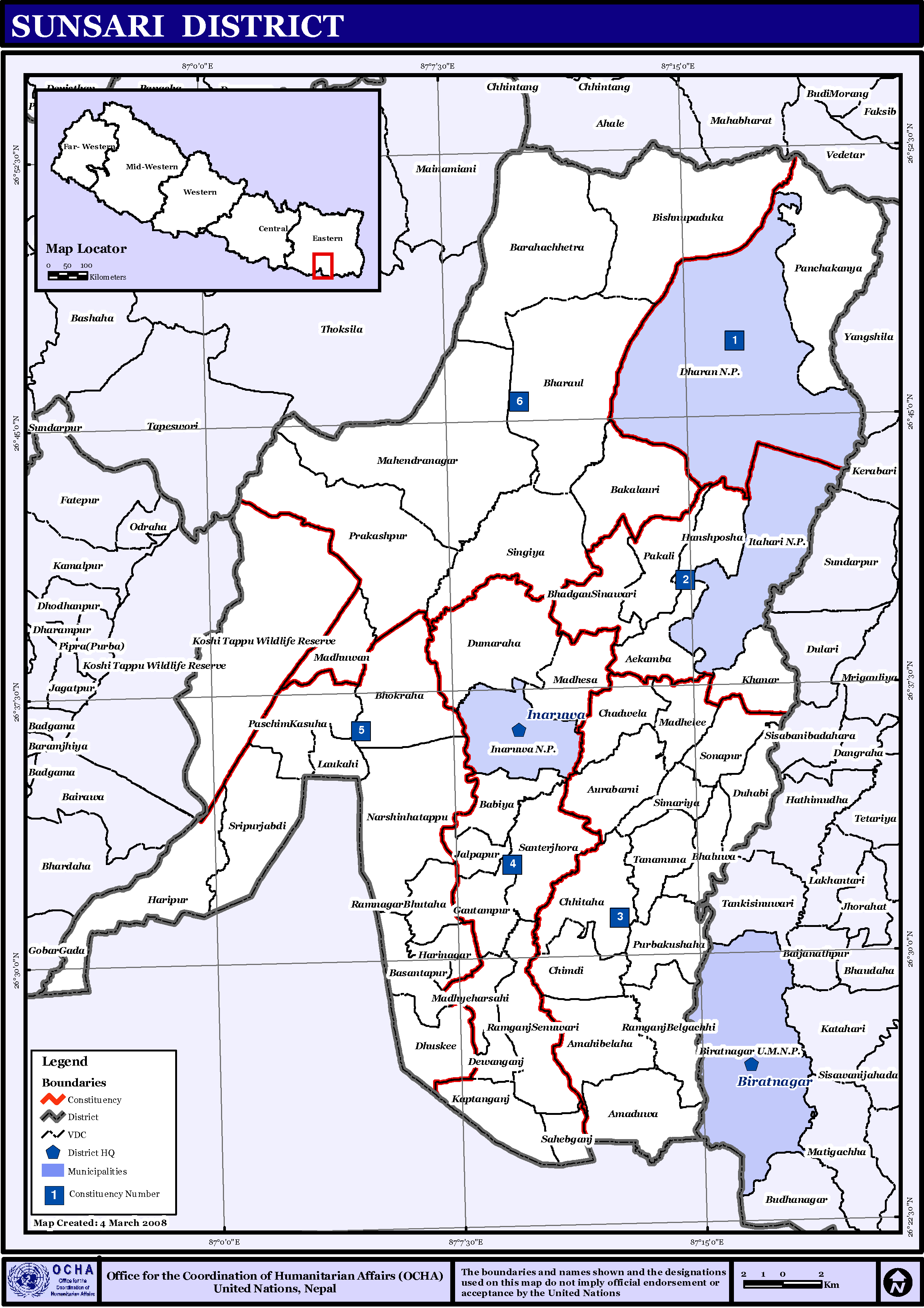 Map displaying Village Development Committees in Sunsari District, Nepal